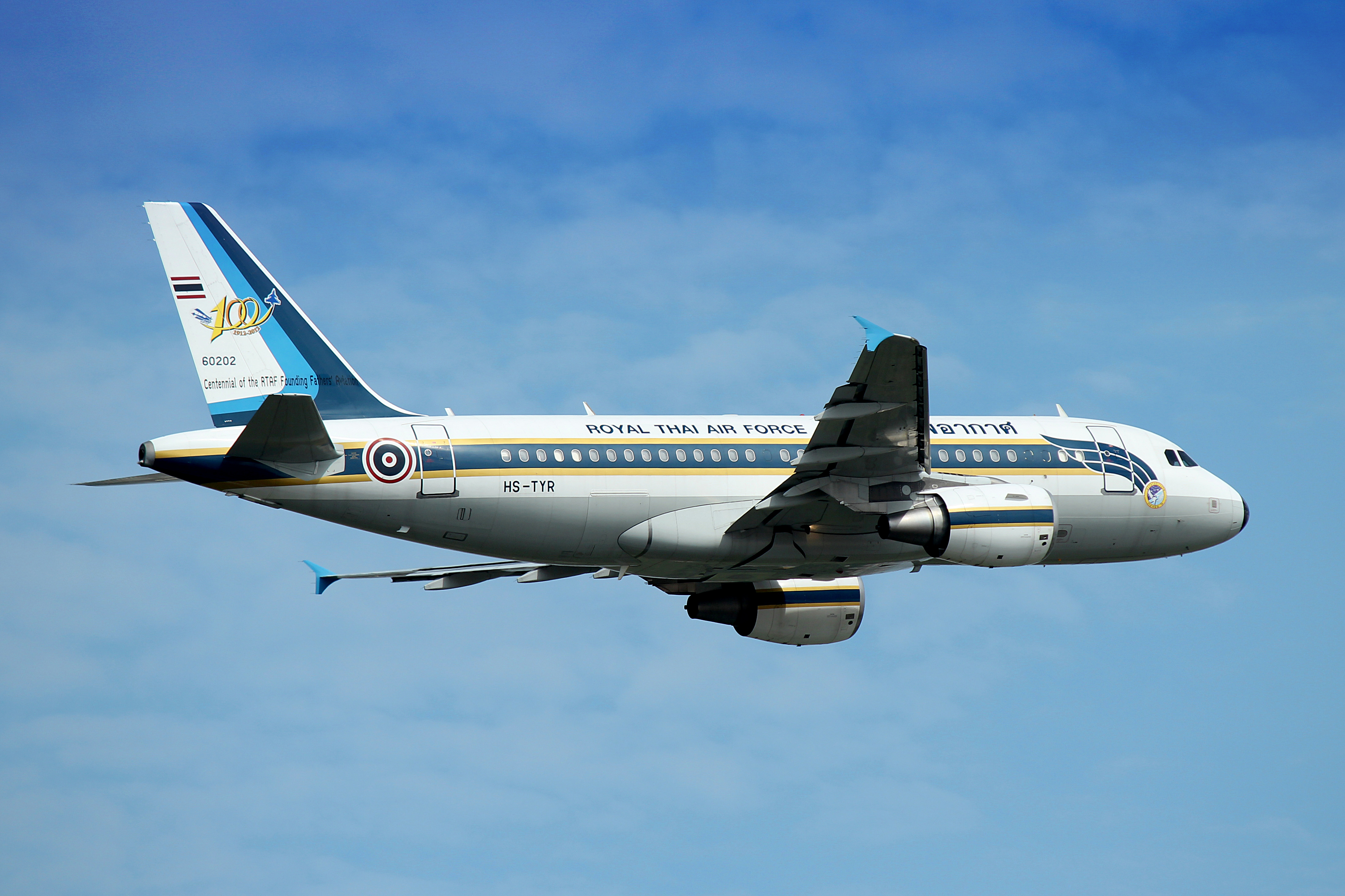 Royal Thai Air Force : Airbus A319